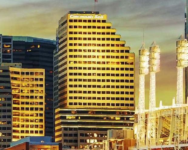 Cincinnati Bell Headquarters